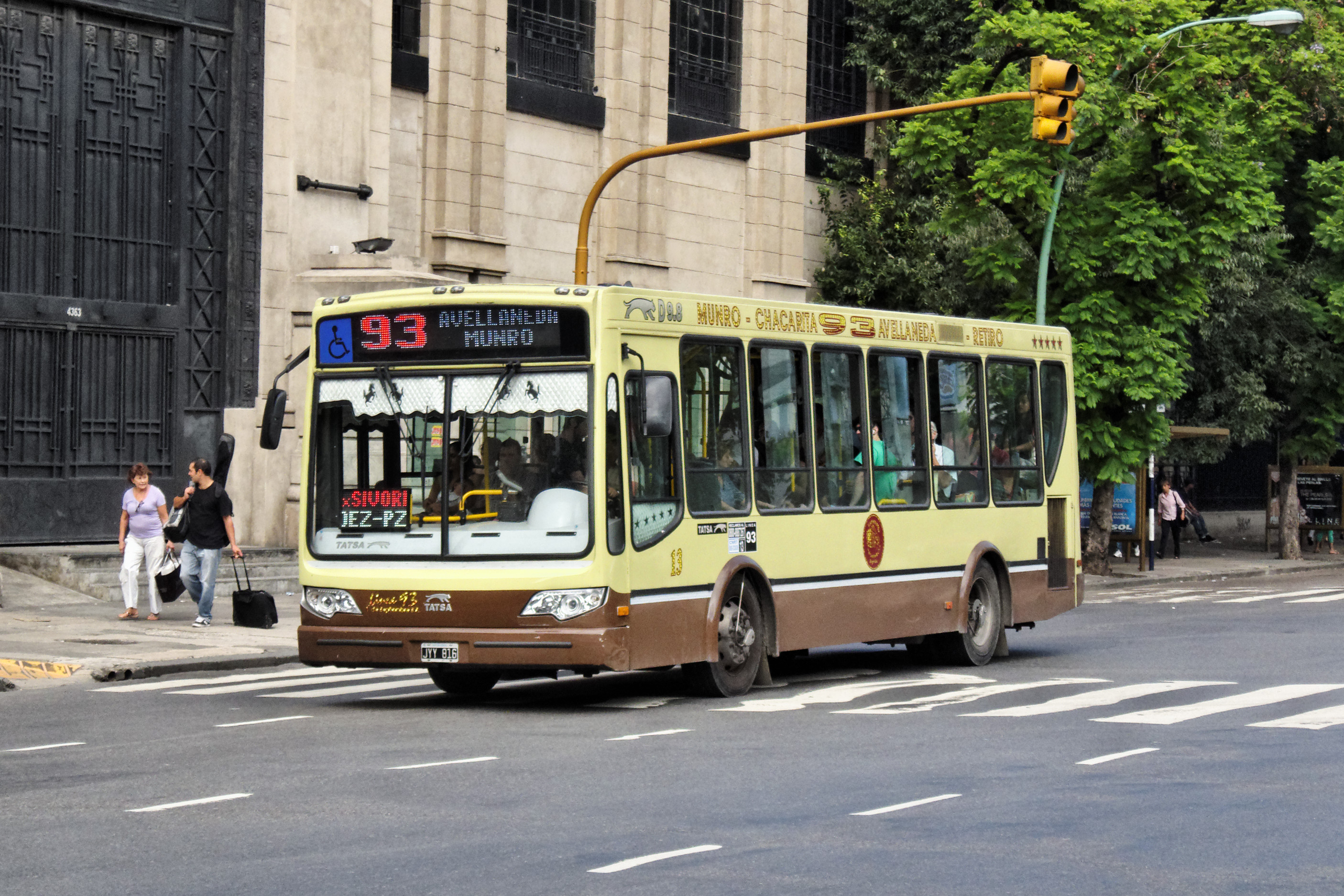 TATSA Puma D9.8 bus (reg. JYY 816, #13) in Buenos Aires, Argentina. Colectivo, line 93, Transportes 1° de Septiembre (Transportes Automotores PLAZA S.A.C.I.) operator.